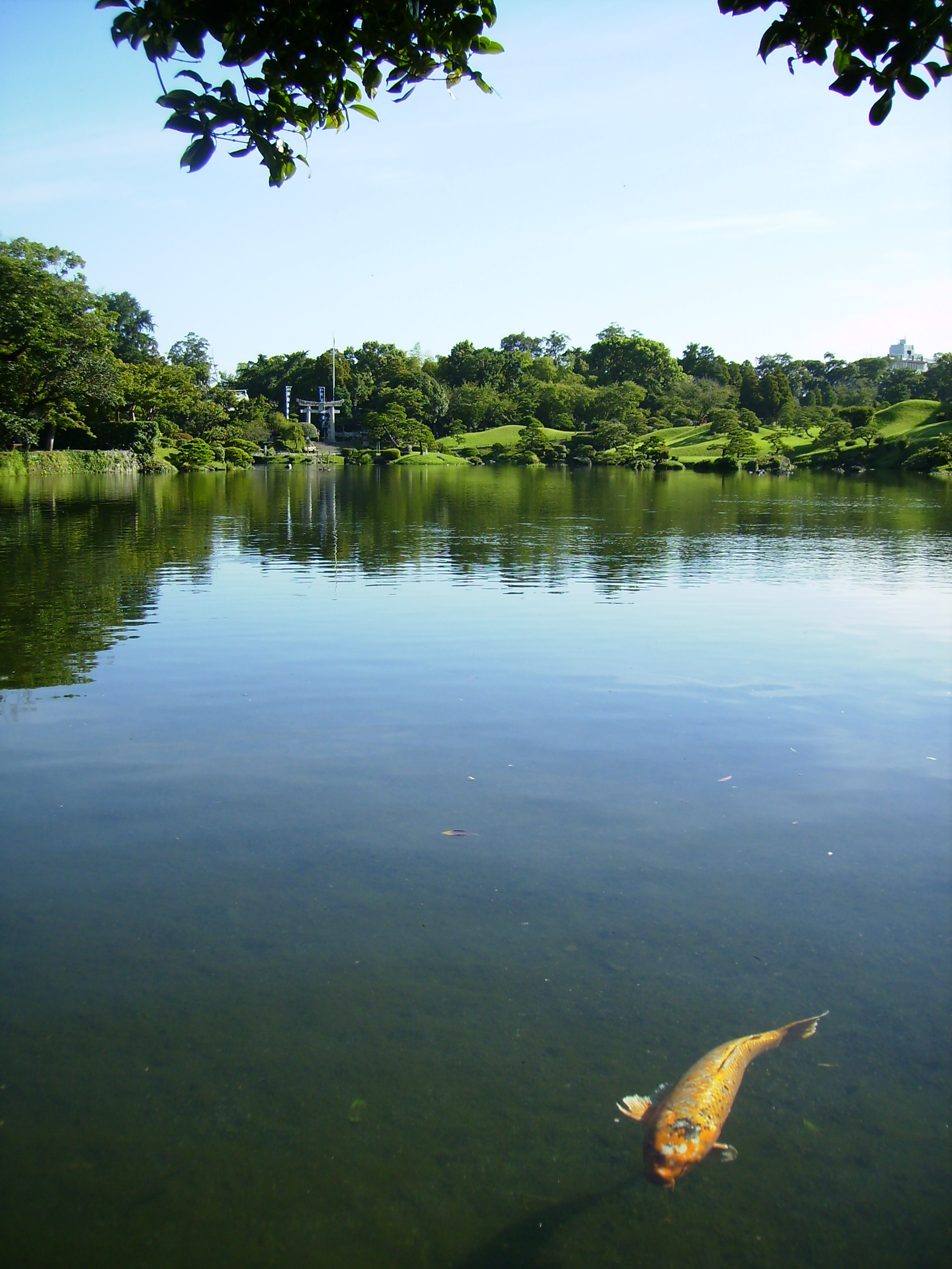 A large carp in the pond at Suizenji Park